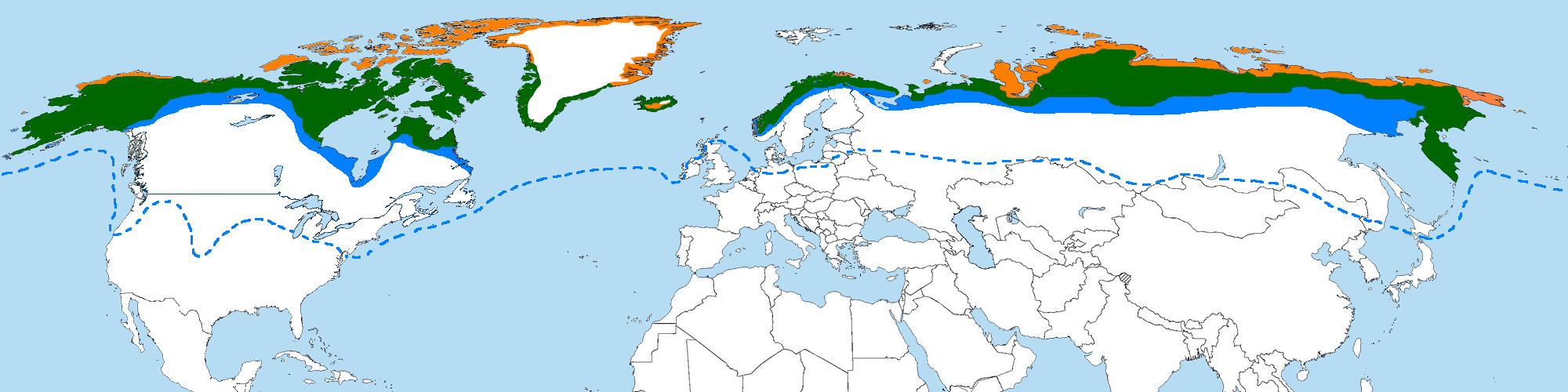 Own work by Ulrich Prokop (Scops) drawn after: Ferguson-Lees: Raptors of the World. Houghton Mifflin Comp. 2001. p. 908 Beaman/Madge: Handbuch der Vogelbestimmung. Ulmer-Stuttgart 1998. S. 212